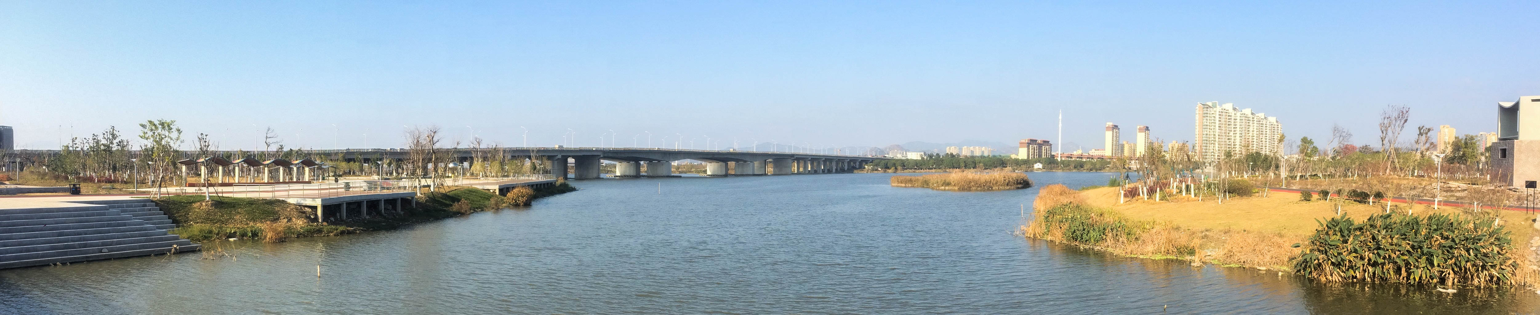 Xuanmen Bay No.3 Bridge, Yuhuan Lake and the greenroad of Yuhuan Lake.